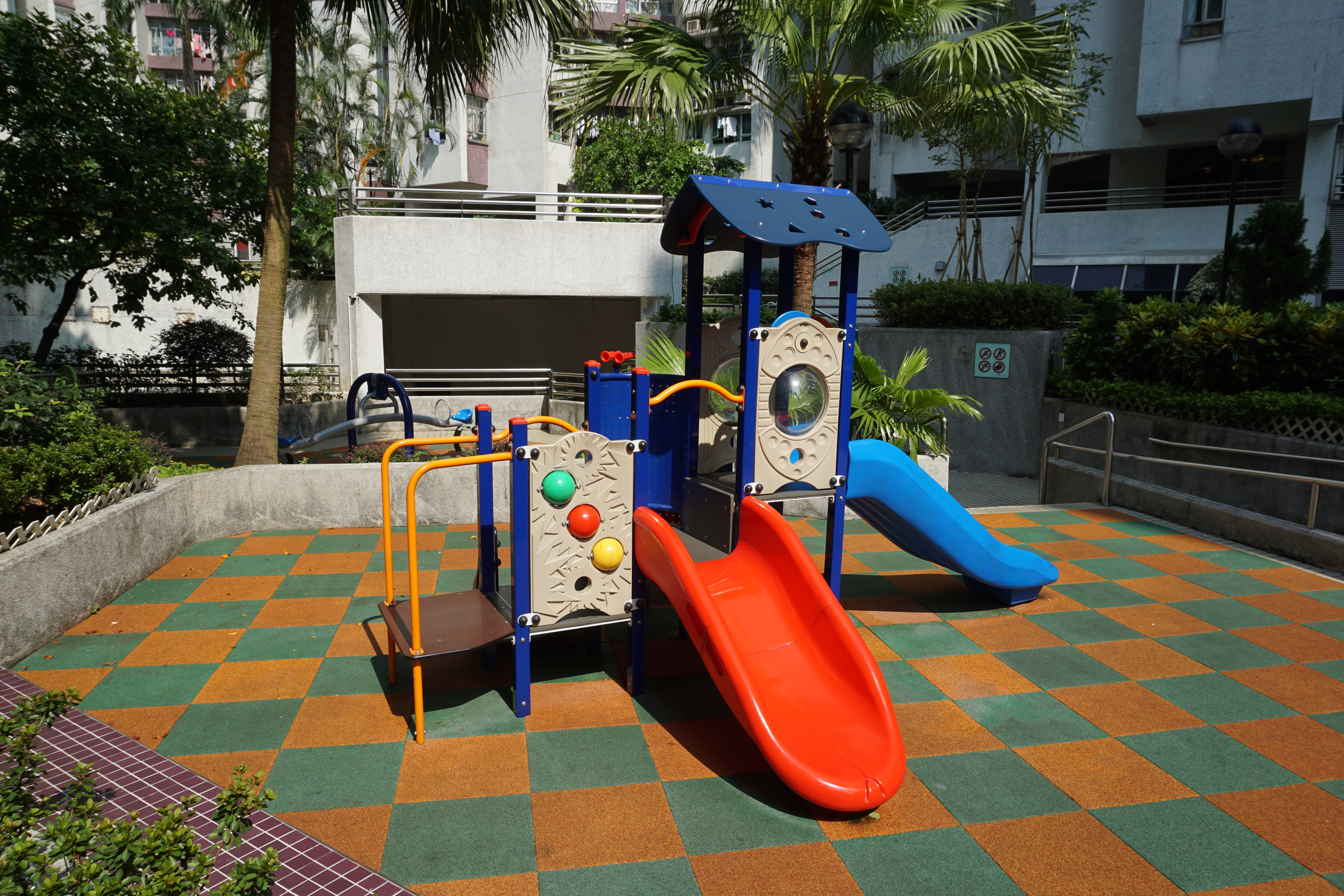 Whampoa Garden in Hung Hom, Hong Kong.